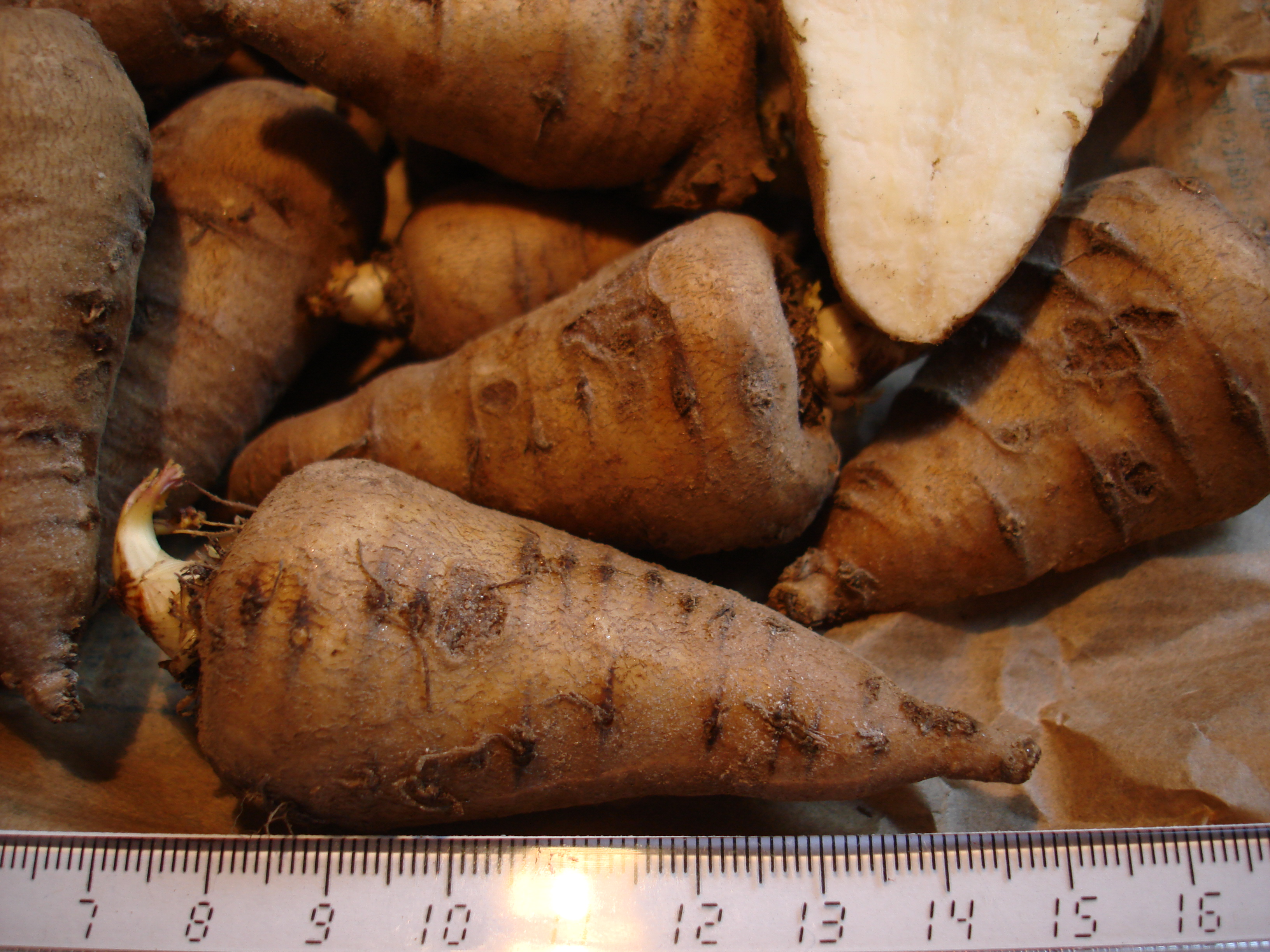 Chaerophyllum bulbosum